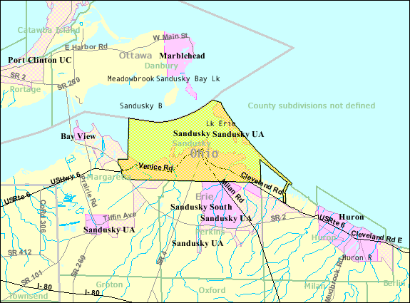 Map of Sandusky, a city in Erie County, northern Ohio — with its boundaries at the time of the 2000 census.